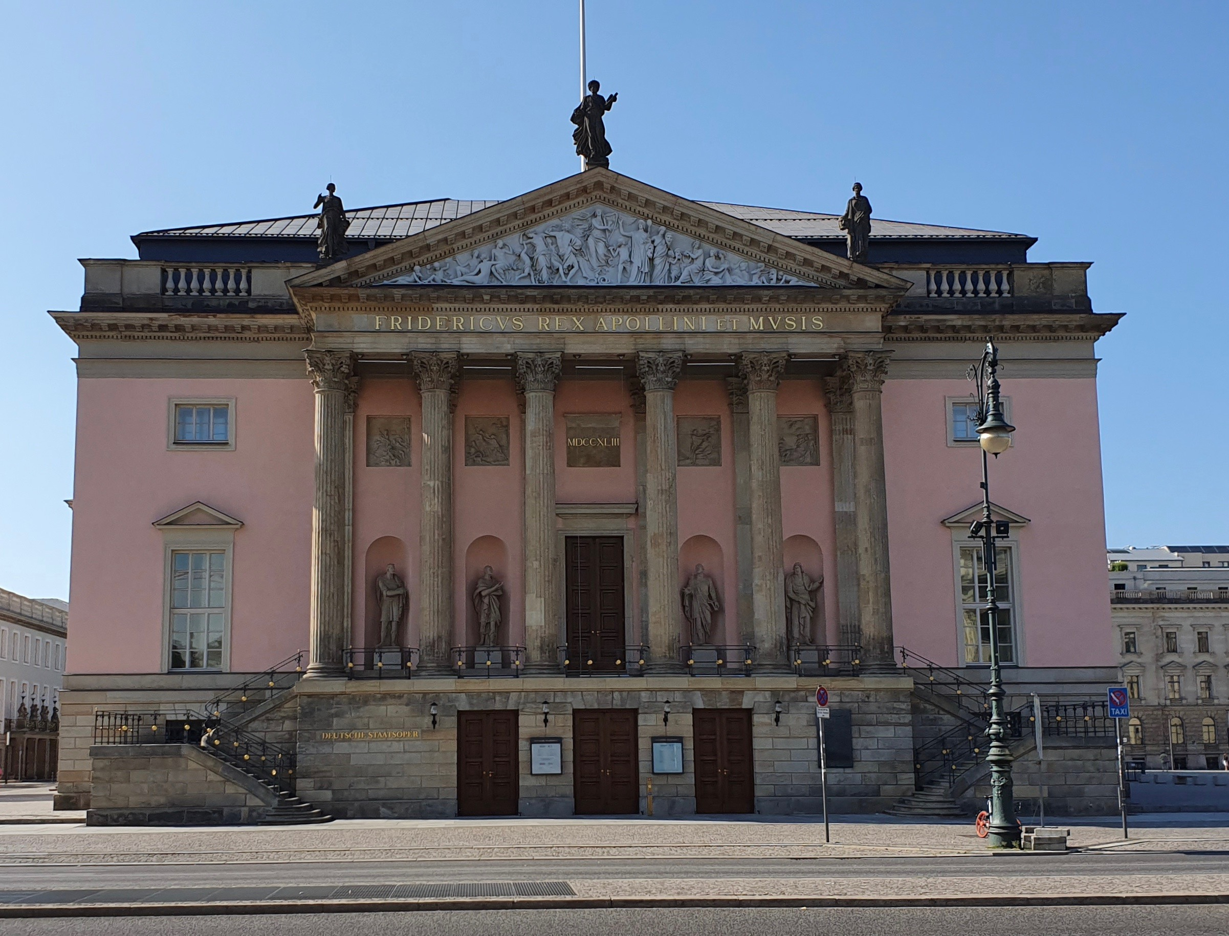 Berlin State Opera